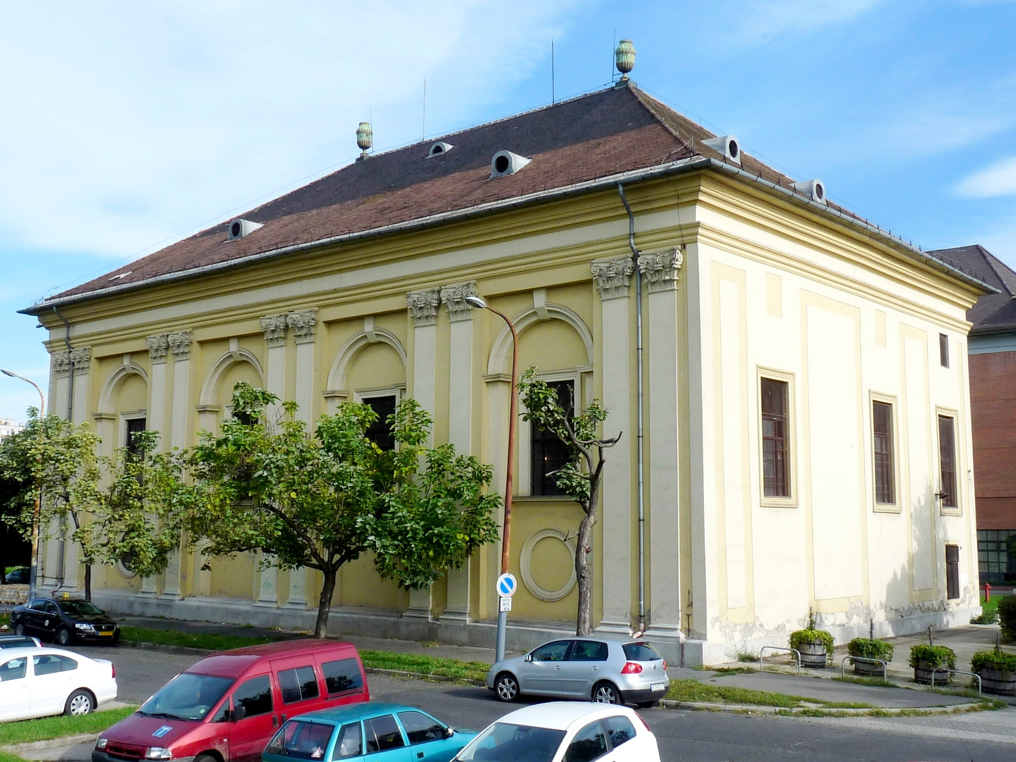 Budapest's oldest synagogue, built in 1821 in classic style. Architect: Andreas Landesherr.